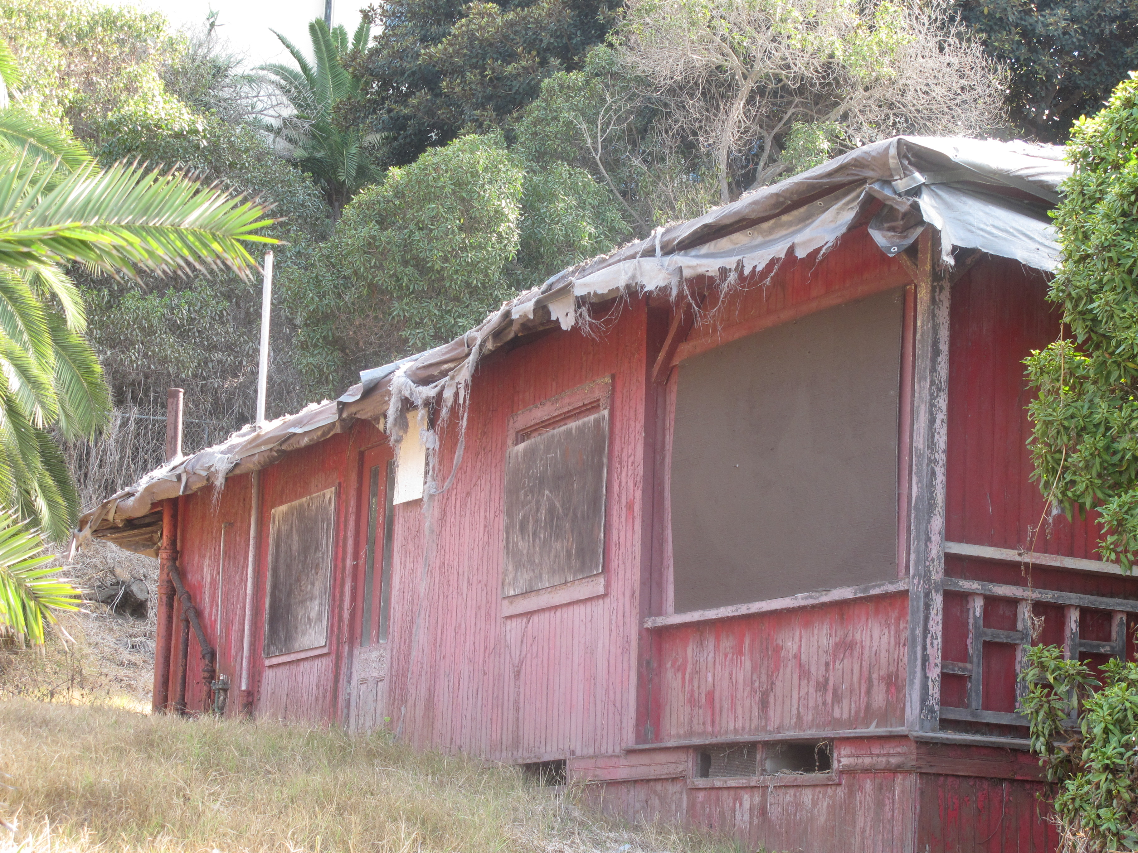 The side view of a bungalow cottage built in 1894, called "Red Roost", one of two that still exist on the road above La Jolla Cove. They are not in use and are overed in tarpaulins.